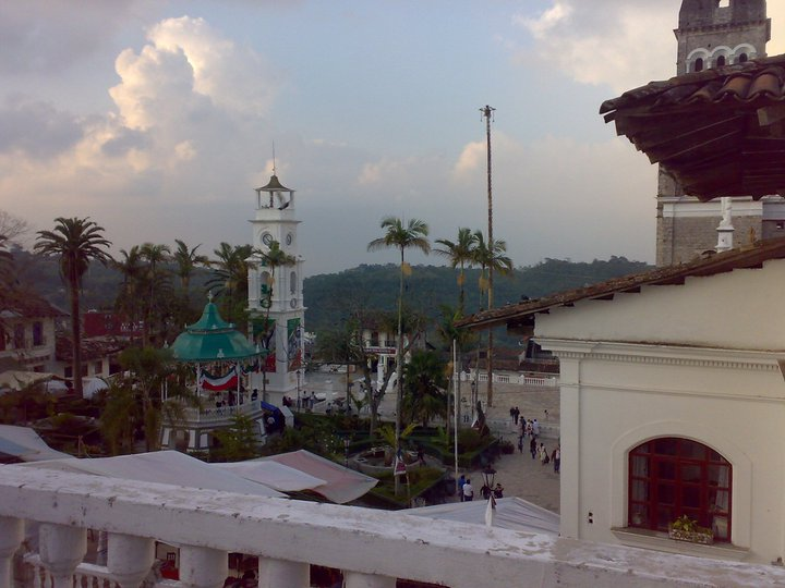 Central Park of Cuetzalan